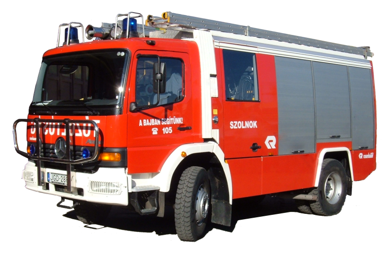 Fire engine from Szolnok FD (Hungary)